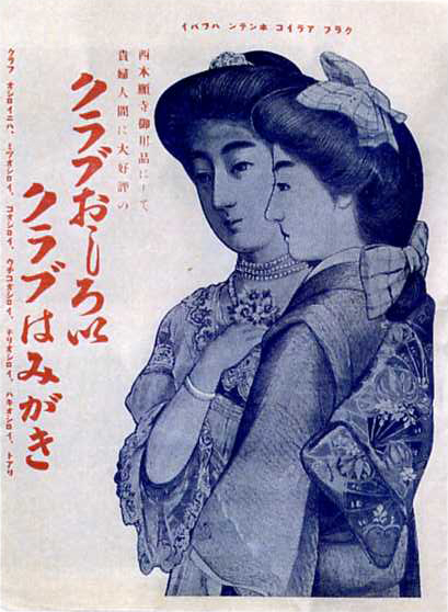 Club News 1910